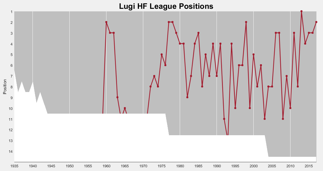 Lugi HF (men) positions in the top division. The grey area denotes the number of teams in the top division. For split seasons, the autumn positions are shown when the team did not play in the top division in the spring season.